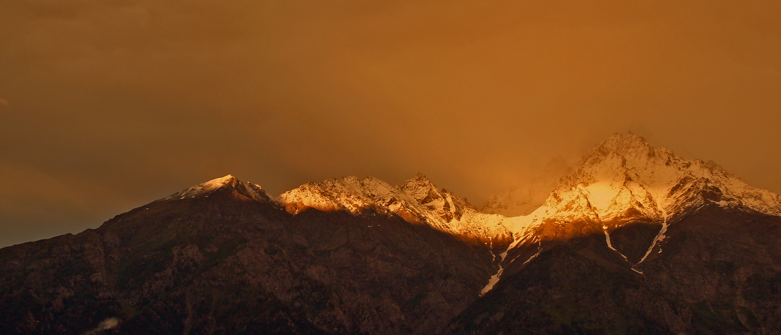 Kinnaur Kailash from Kalpa on june 2015